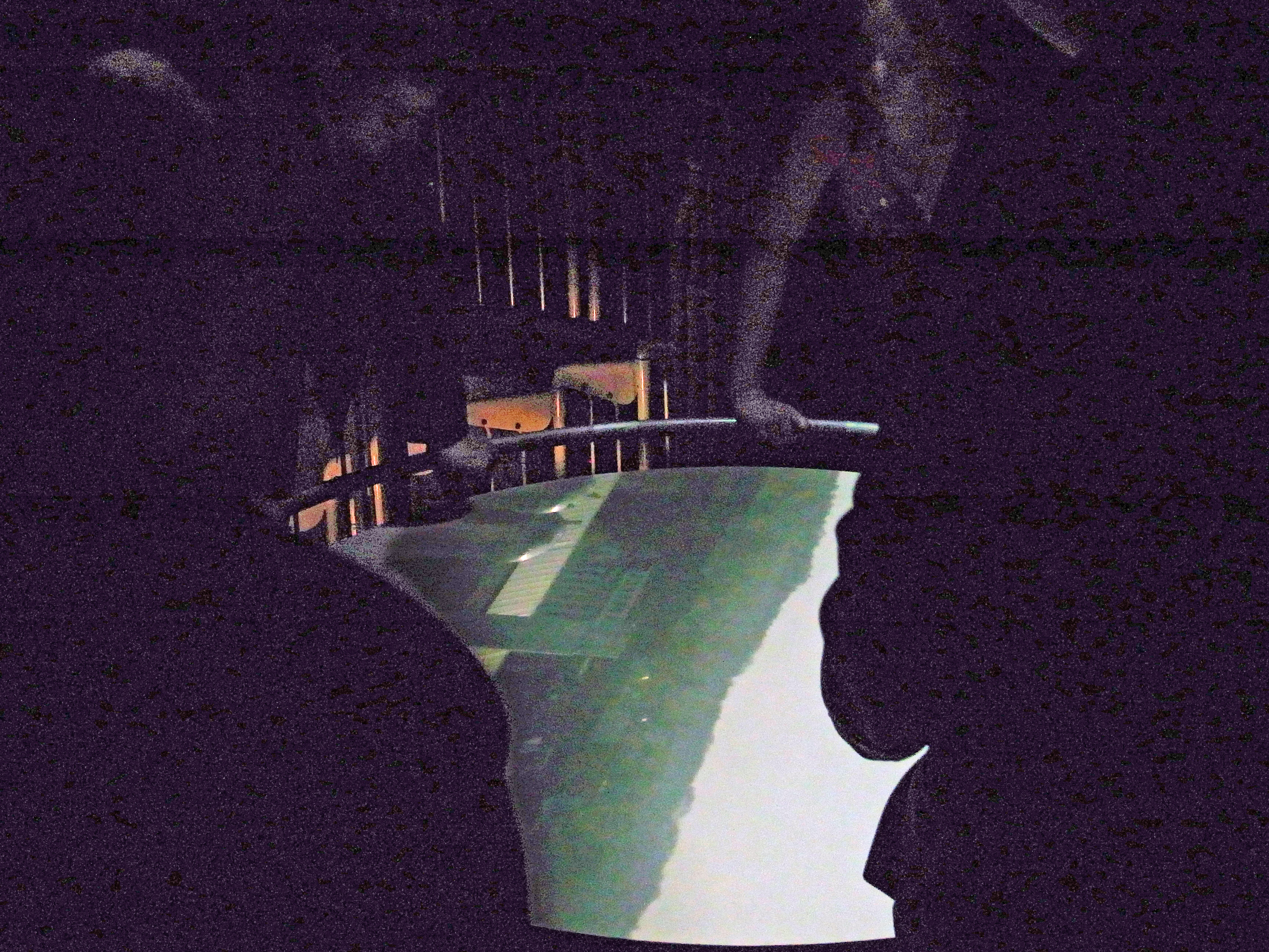 Camera obsura